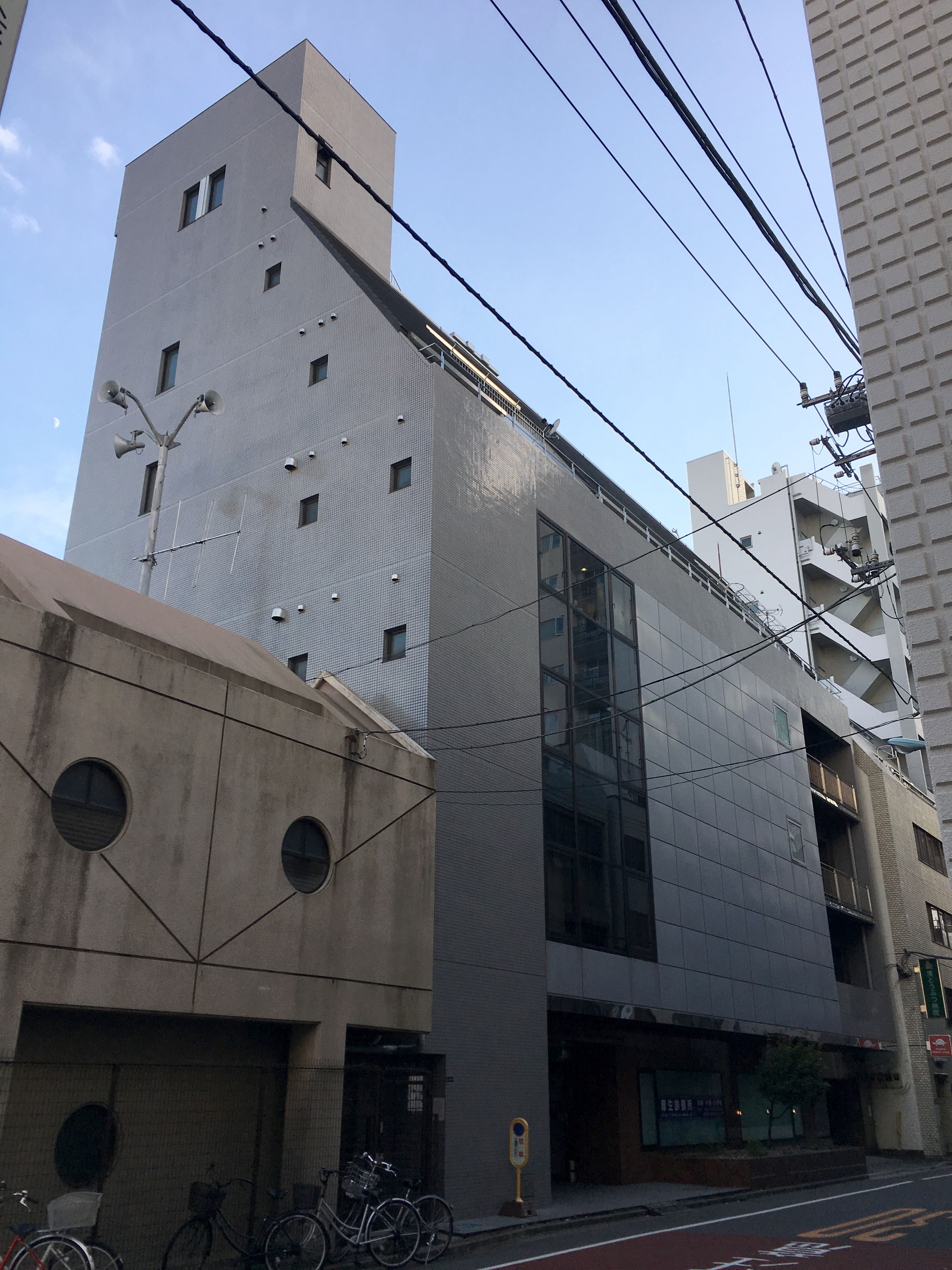 Maruki Enomoto Building (Office building in Tokyo, Japan)